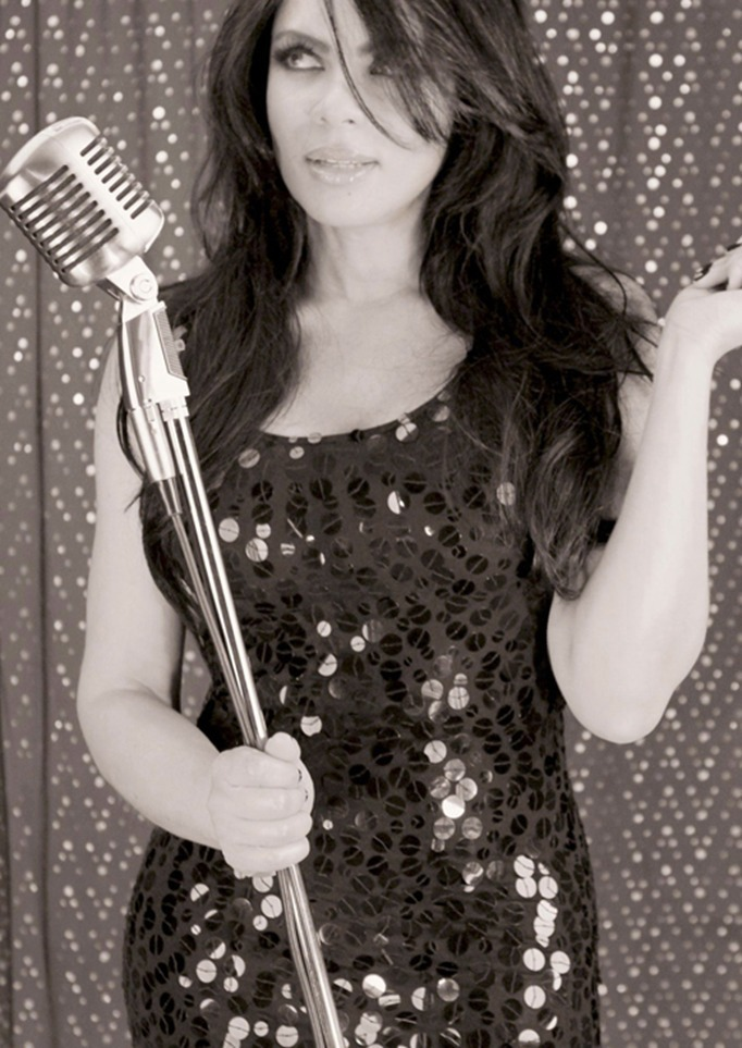 Author=Michael Chu